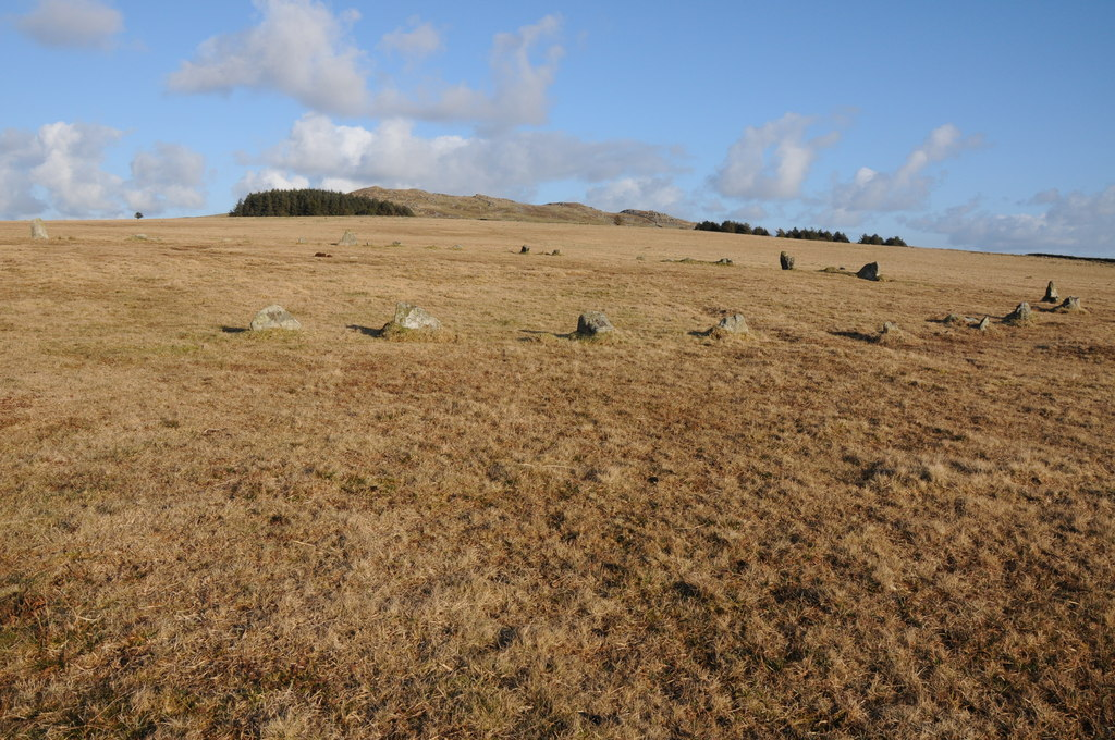 Stone circle near Rough Tor